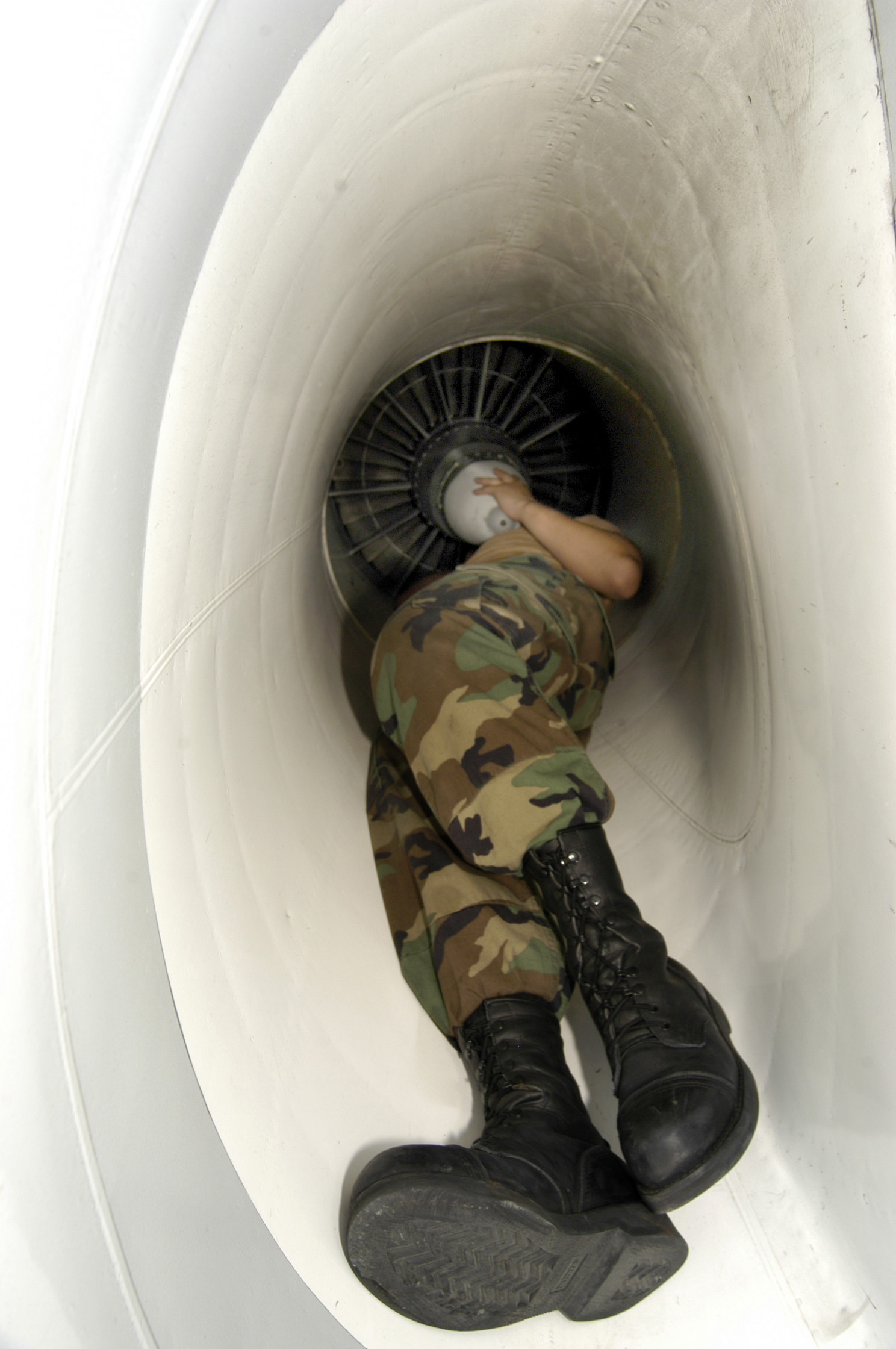 Aviation Machinist Mate 3rd Class Jose Del Rayo inspects the intake of an EA-6B Prowler from Electronic Attack Squadron One Twenty Eight (VAQ-128) "Fighting Phoenix" following a training mission at Naval Air Station (NAS) Sigonella. NAS Sigonella provides logistical support for Sixth Fleet and NATO forces throughout the Mediterranean Sea.